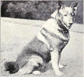 Dog of Noorland from 1915